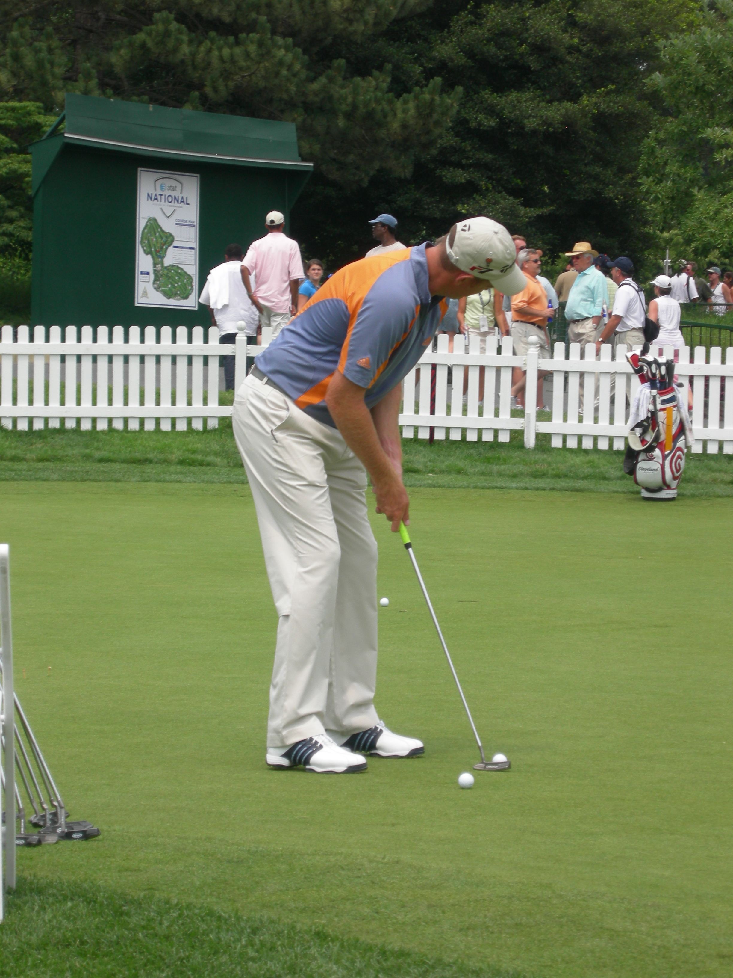 Greg Owen on the putting green at the Congressional Country Club during the Earl Woods Memorial Pro-Am prior to the 2007 AT&T National tournament.